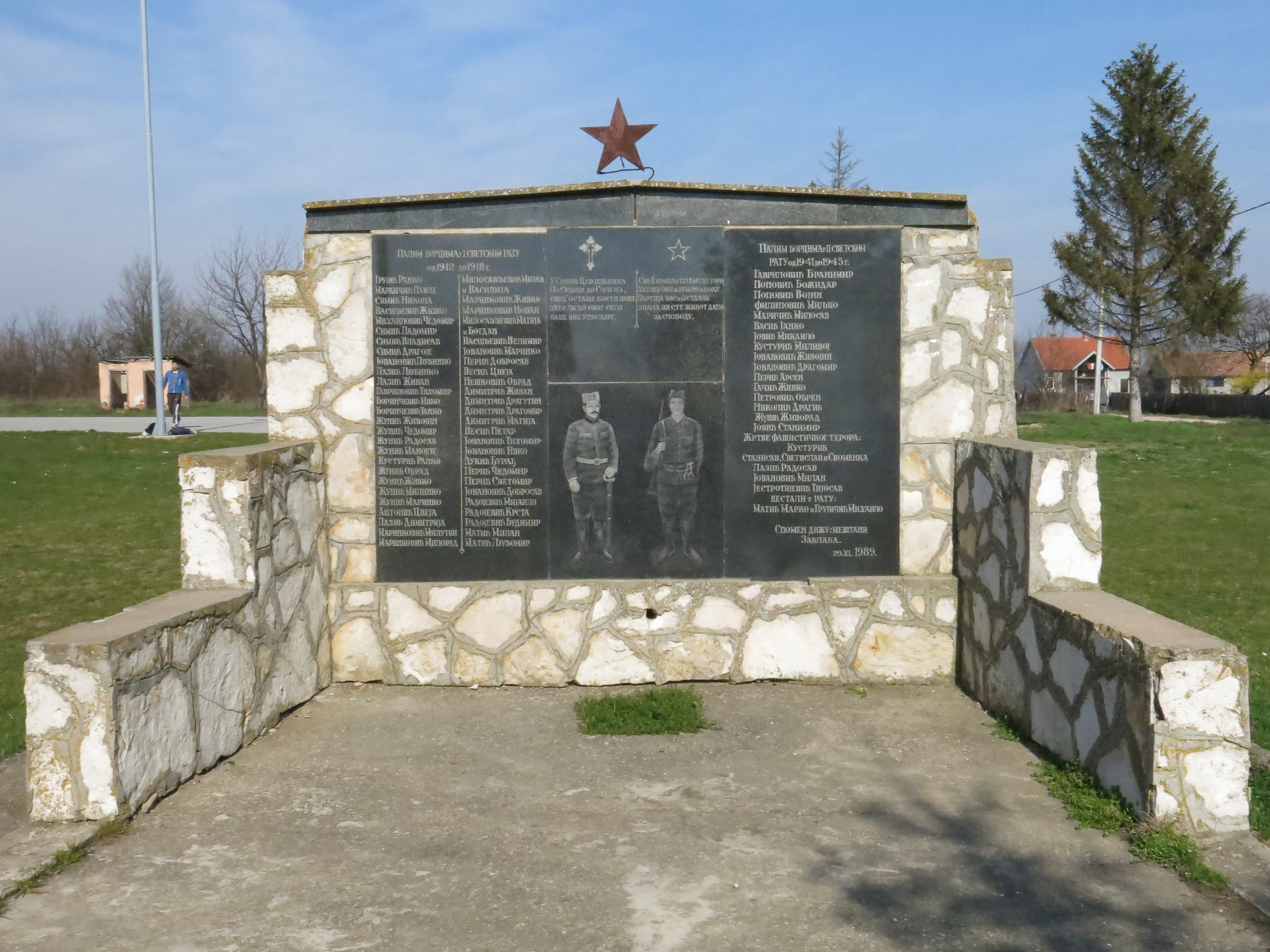 Zablaće, Monument to the warriors of World War I and II